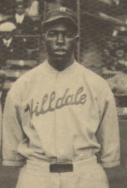 Nip Winters at the 1924 Colored World Series. LOC states here that there are no restrictions on use of this image, therefore it is PD. This file has been extracted from another file: 1924 Negro League World Series.jpg